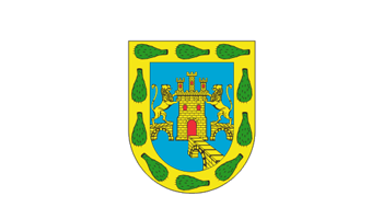 Coat of Arms of Mexico City, Mexico